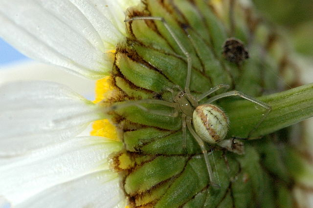 female Enoplognatha ovata from Commanster, Belgian High Ardennes .